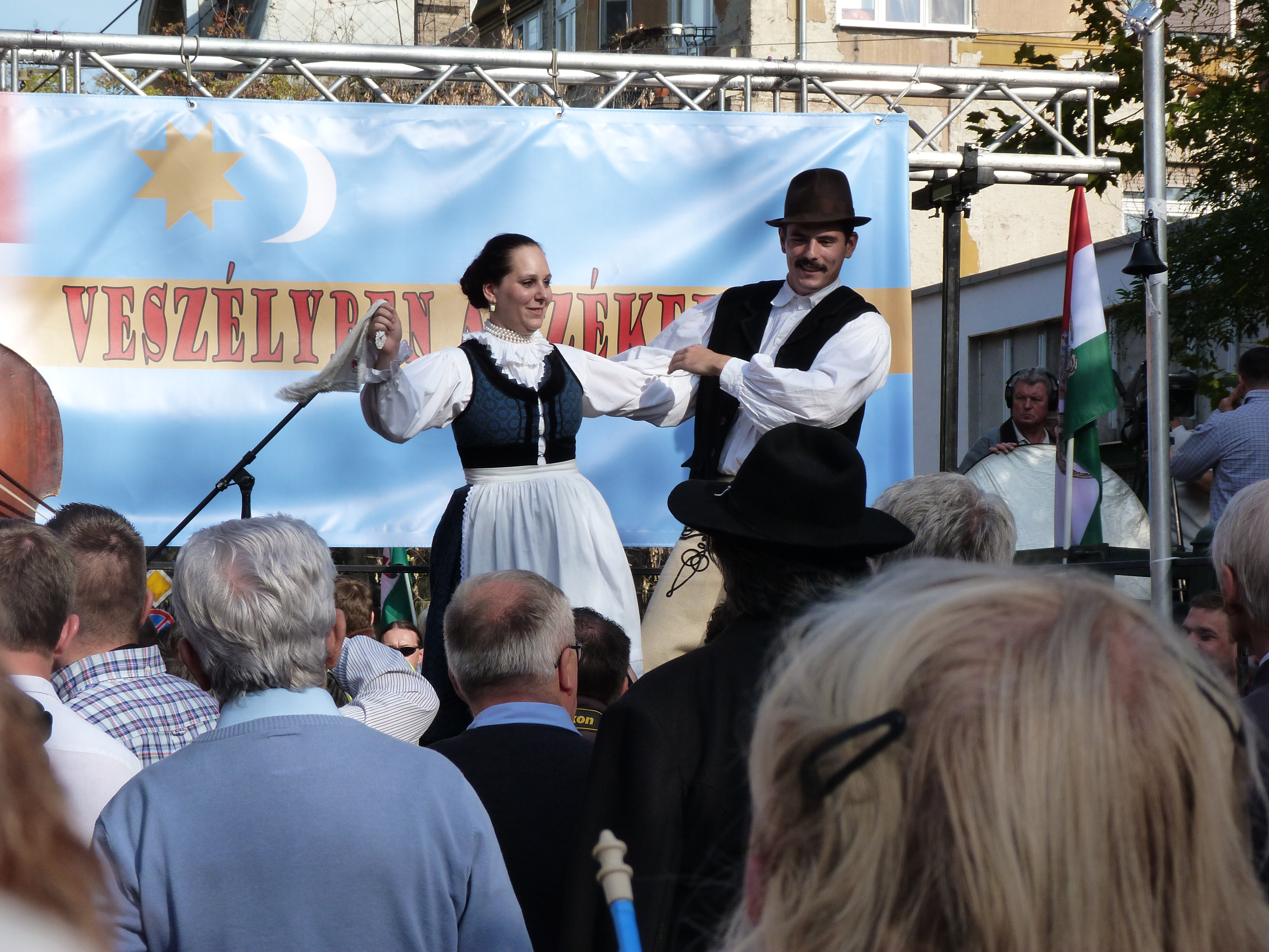 Székely (pronounced [ˈseːkɛj]) Land or Szeklerland (Hungarian: Székelyföld; Romanian: Ţinutul Secuiesc